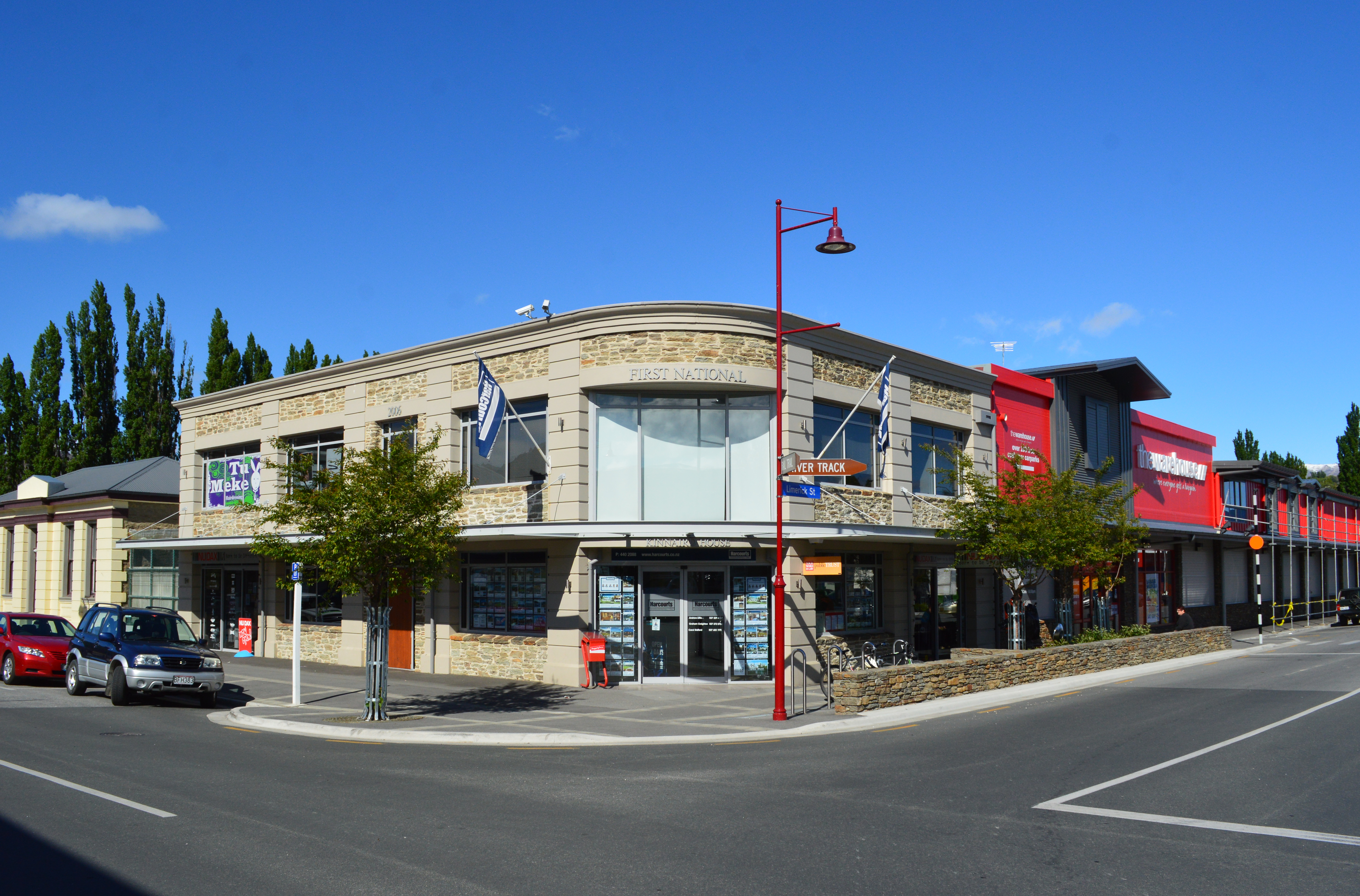 The First National real estate office at Alexandra, New Zealand